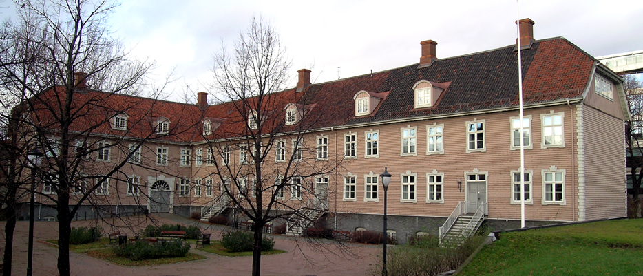 Militærhospitalet, Grev Wedels plass 1, Oslo. Built 1807; architect Jon Raphael Pousette. Originally located in Akersgata 44, dismantled 1962, erected on present location 1983. Present appearance by architect Christian Collett, 1826. National hospital (Rikshospitalet) from 1826 till 1883.